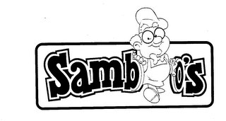 Logo used by the defunct Sambo's restaurant chain in the 1980's.